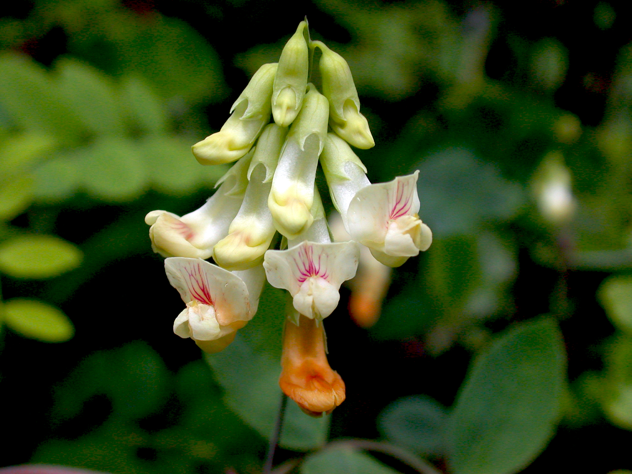 Thin-Leaved Peavine (Lathyrus holochlorus) – Spring is here and the flowers are in full bloom at one of Oregon's natural gems. Located on the western edge of Eugene, Oregon, the West Eugene Wetlands (WEW) is a beautiful and rare area of grassland habitats. Comprised of less than one percent of the original native wet prairie, the WEW is home to over 200 species of wildflowers, plants, birds, and animals, including four threatened and endangered species: Fender’s blue butterfly, Kincaid’s lupine, Bradshaw’s lomatium, and Willamette daisy. The BLM's Eugene District, in collaboration with other Rivers to Ridges partners, works to protect and restore this vital wetland ecosystem in the Southern Willamette Valley. This unique project involves federal, state, and local agencies, as well as non-profit organizations, working together to manage lands and resources in an urban area for multiple public benefits. Each year, Willamette Resources & Educational Network (WREN) provides hands-on, minds-on environmental education to over 1,500 local students. For directions or to plan a visit to the West Eugene Wetlands